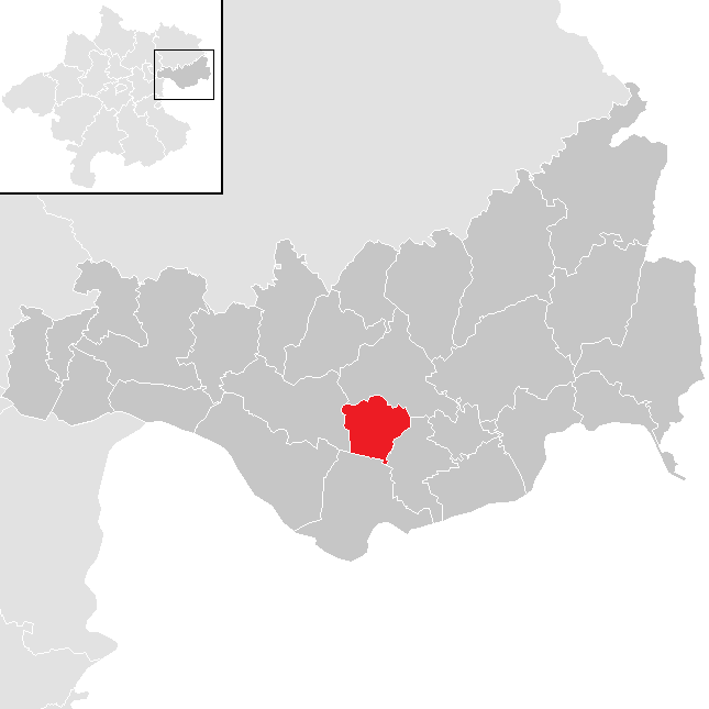 district Perg